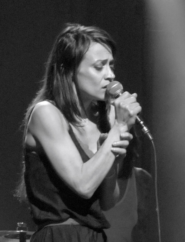 Apple performing at Terminal Five in New York City, October 2012.